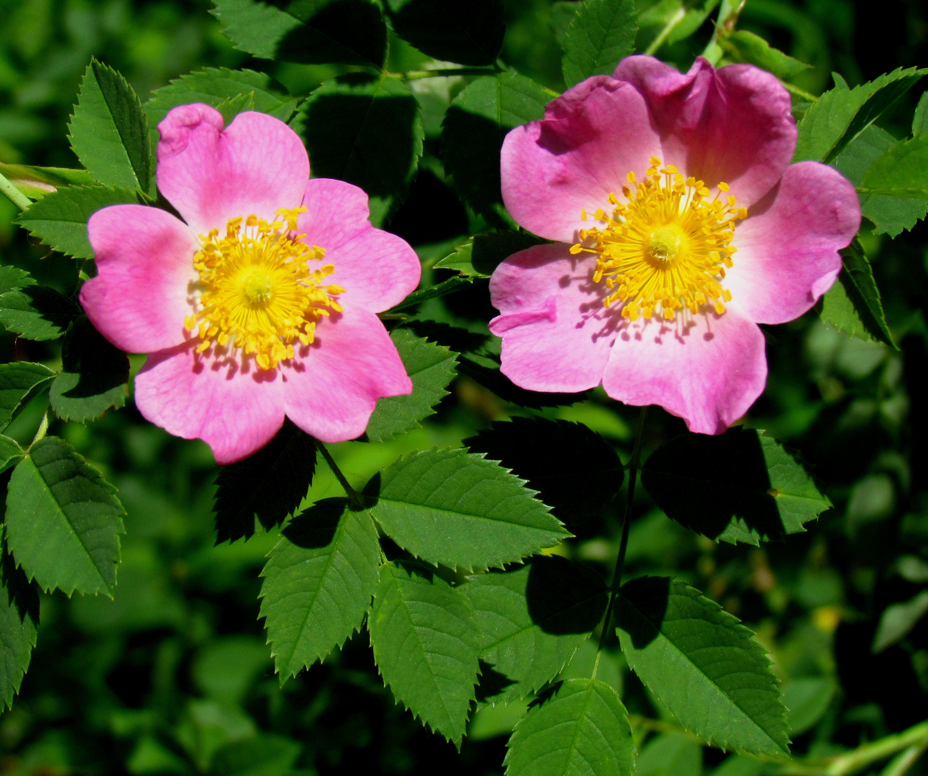 Pasture Rose (Rosa carolina), Ottawa, Ontario, Canada